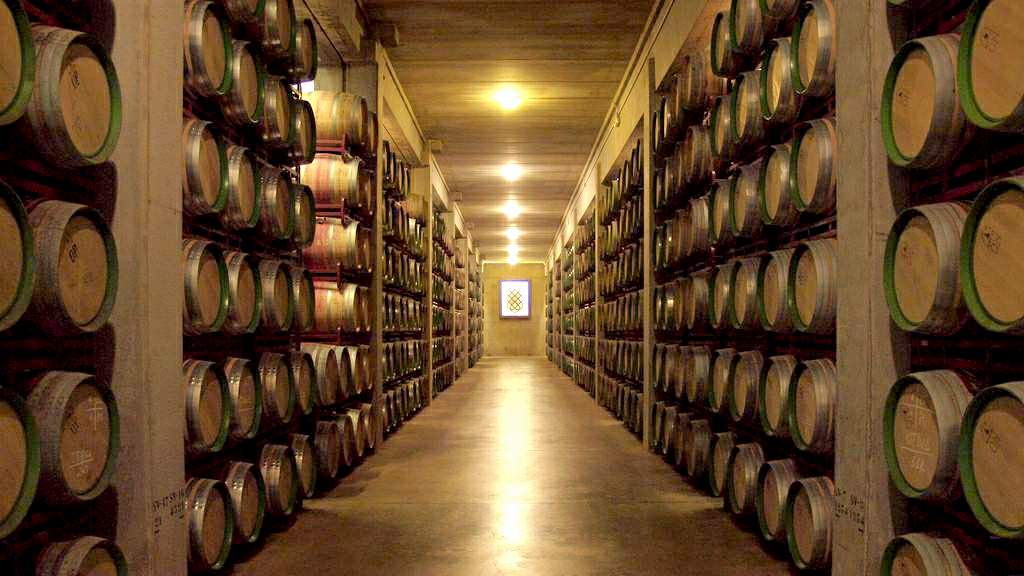 Cellar at Marques de Riscal winery in Elciego, Spain.